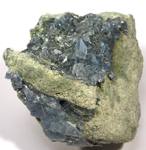 Quartz, Magnesioriebeckite Locality: Antequera, Málaga, Andalusia, Spain (Locality at ) Size: 8 x 5 x 3 cm. Definitely one of the finer specimens of the unusual and striking Blue Quartz from the famous locality in Spain. These modified crystals have good crystal development for the variety. Here, the best-developed crystal (.4 cm on edge) has a modified termination that almost looks dipyramidal, and the luster is superb. The blue color is caused by fibrous inclusions of Magnesioriebeckite.